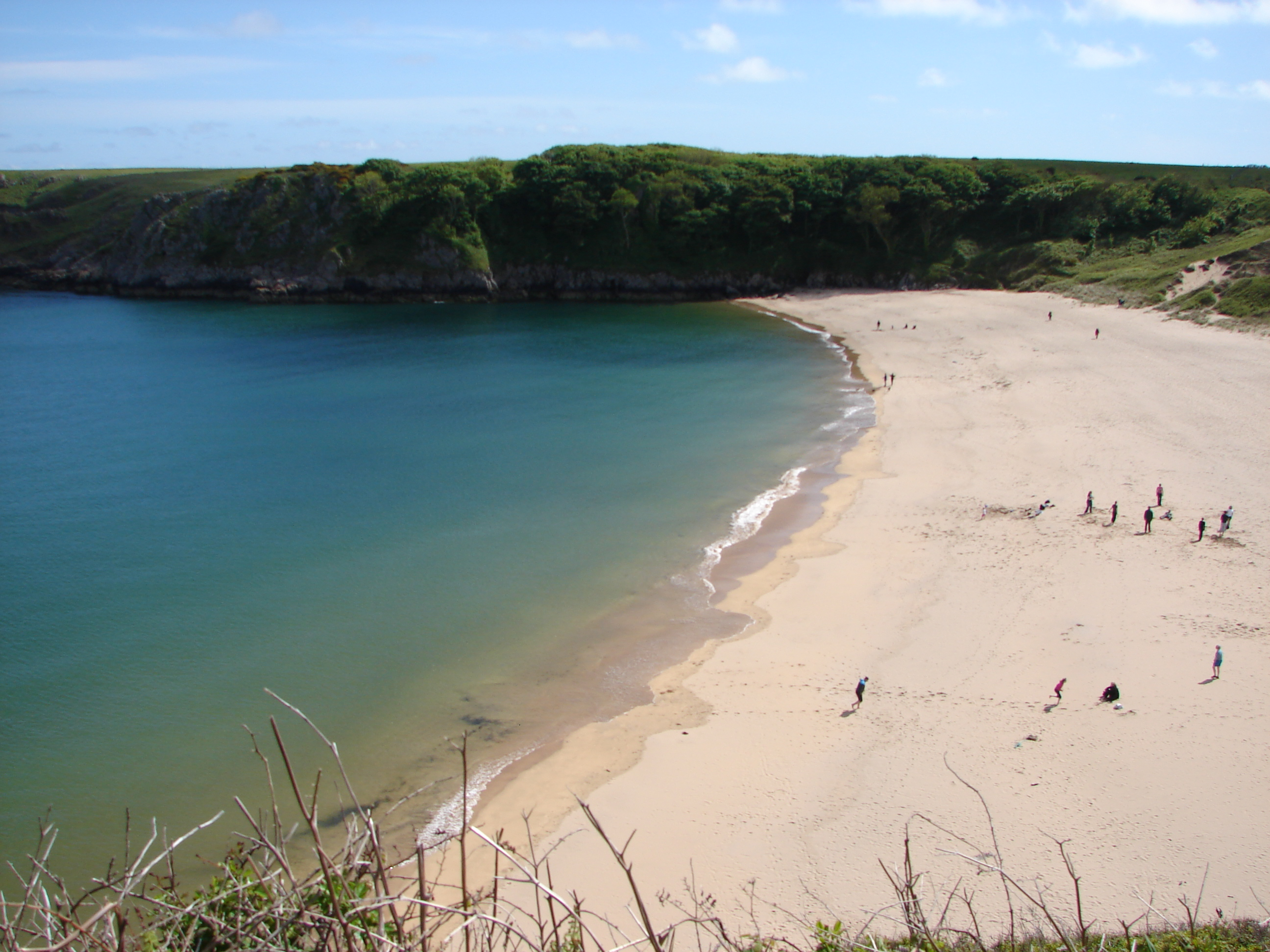 Barafundle Bay beach in Pembrokeshire county, Wales, Britain. Barafundle Bay is generally voted as one of the most beautiful beaches in Britain.